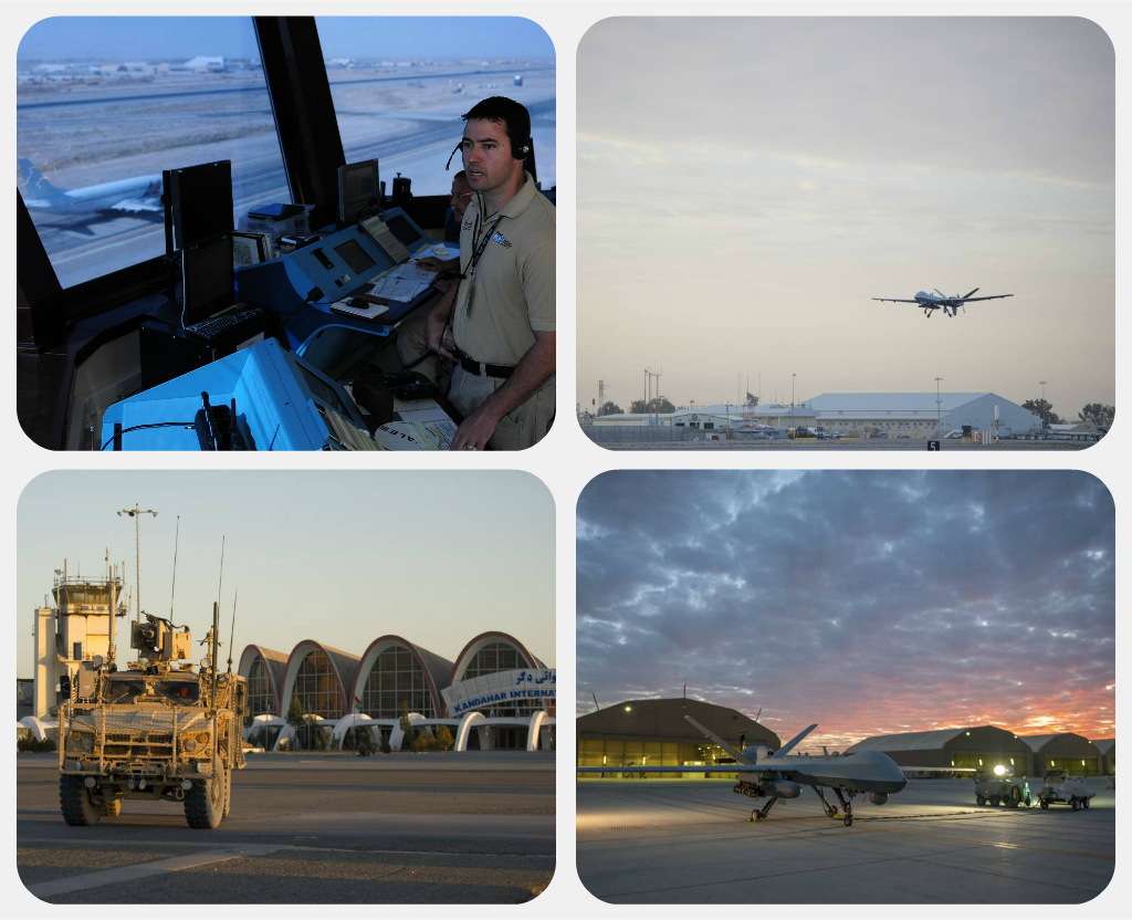 Kandahar International Airport collage